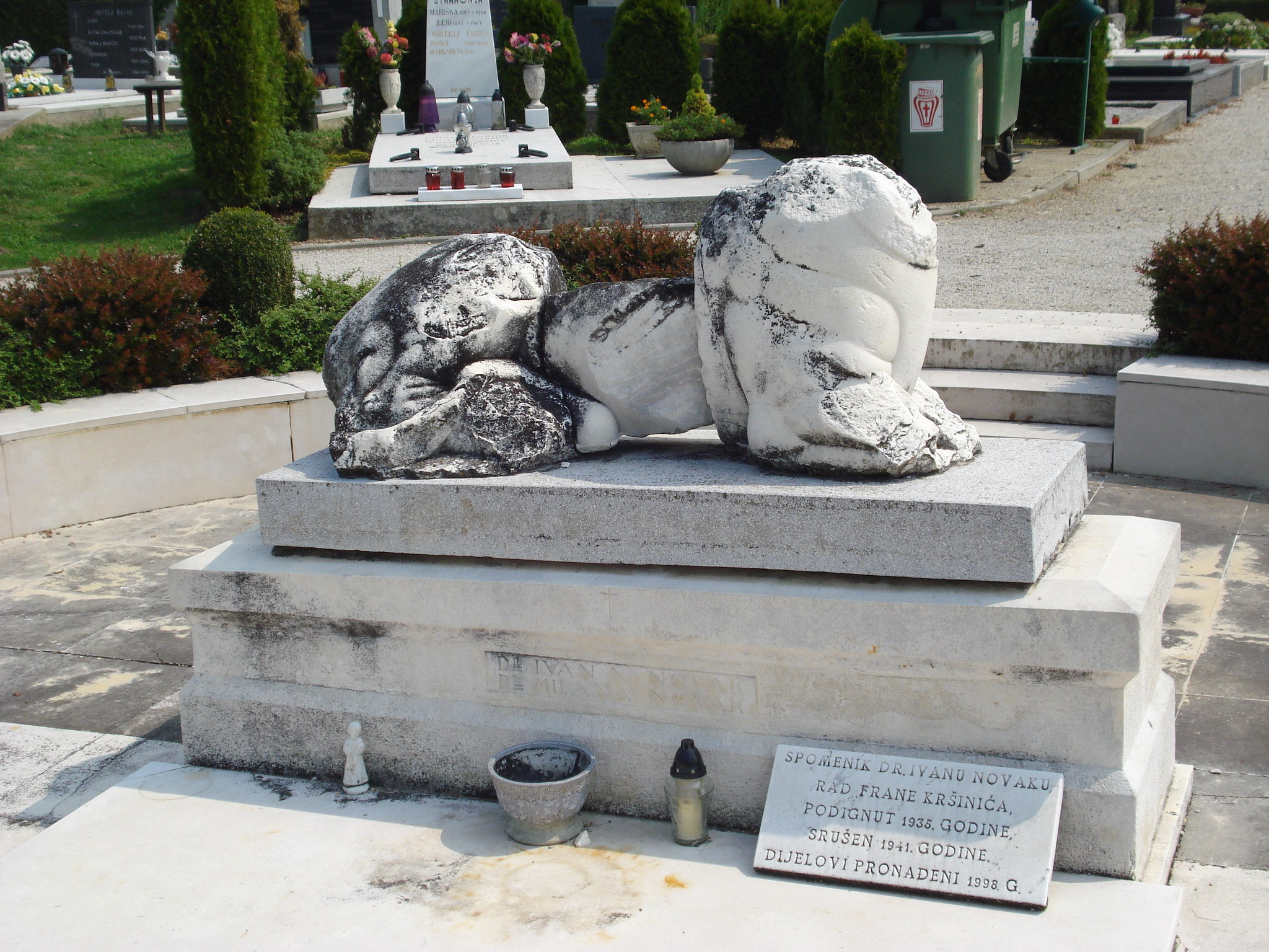 Grave memorial of Ivan Novak, Ph.D., Croatian jurist, publisher, writer and politician (1884-1934), at Čakovec cemetery (west view), made by Frano Kršinić in 1935, devastated by Hungarian occupation soldiers in 1941, found and partially reconstructed in 1998.